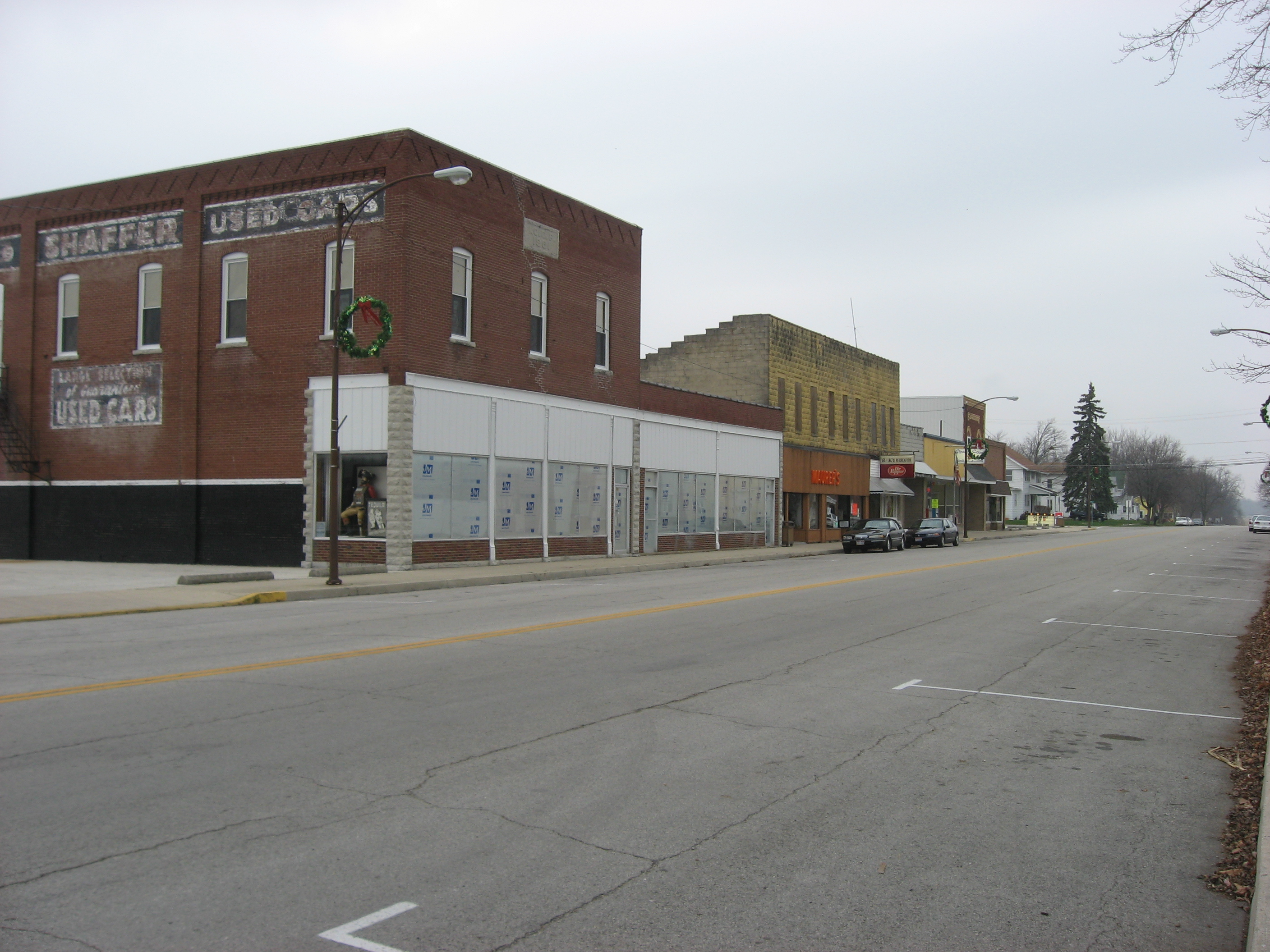 Buildings along the 100 block of North Main Street (State Route 707) in the downtown business district of Mendon, Ohio, United States.